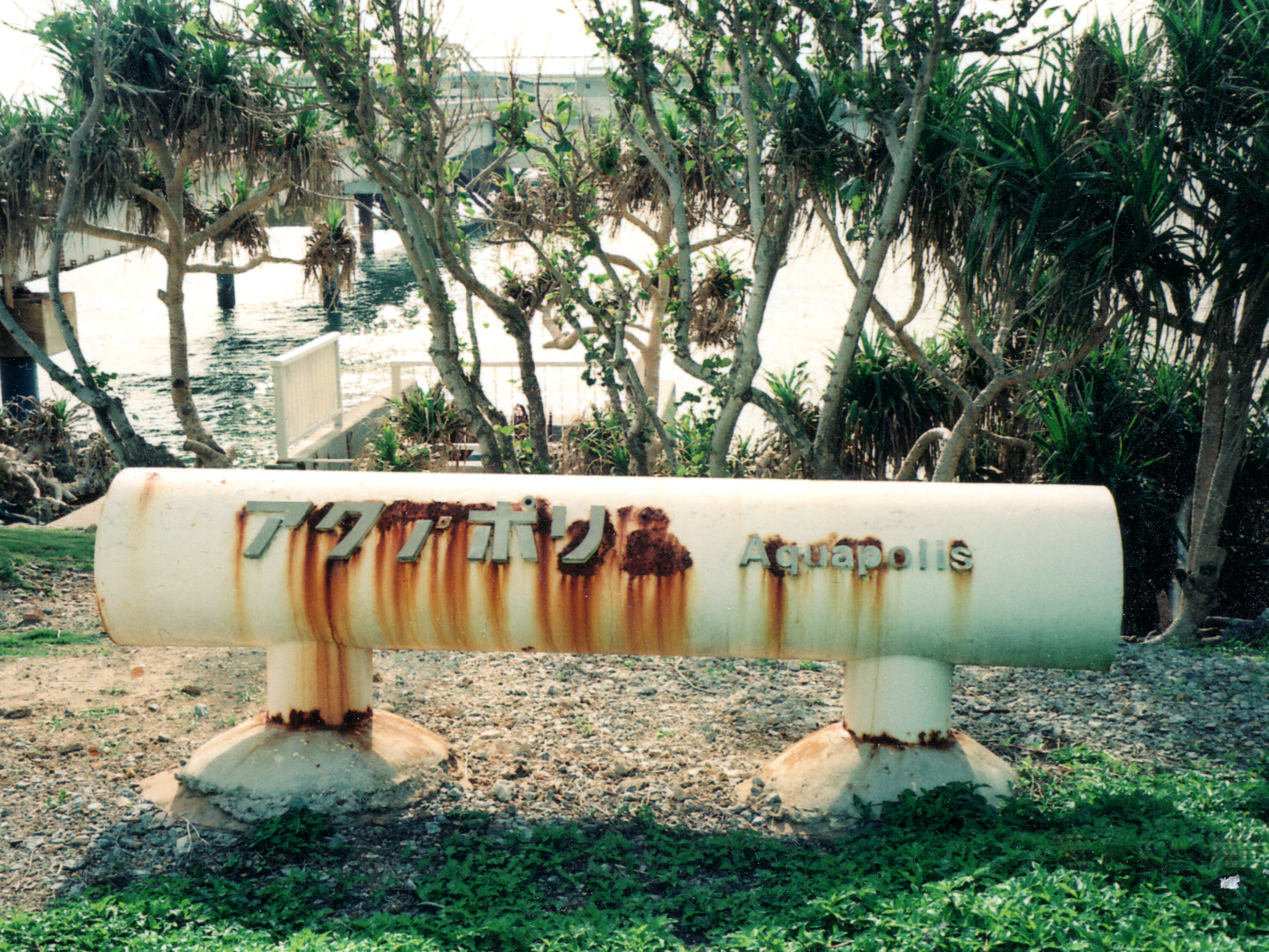 Aquapolis,Motobucho Kunigamigun Okinawa JAPAN.